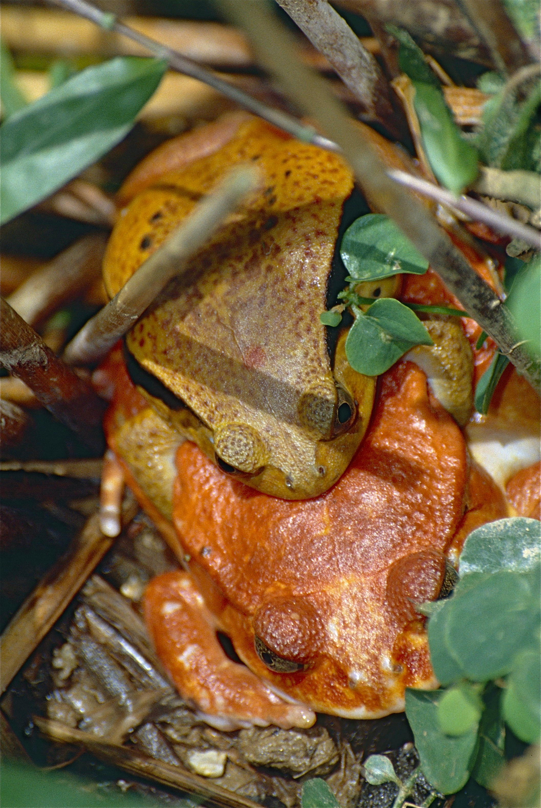 Réserve Peyrieras, Moramanga, MADAGASCAR Scanned Slide from 1998